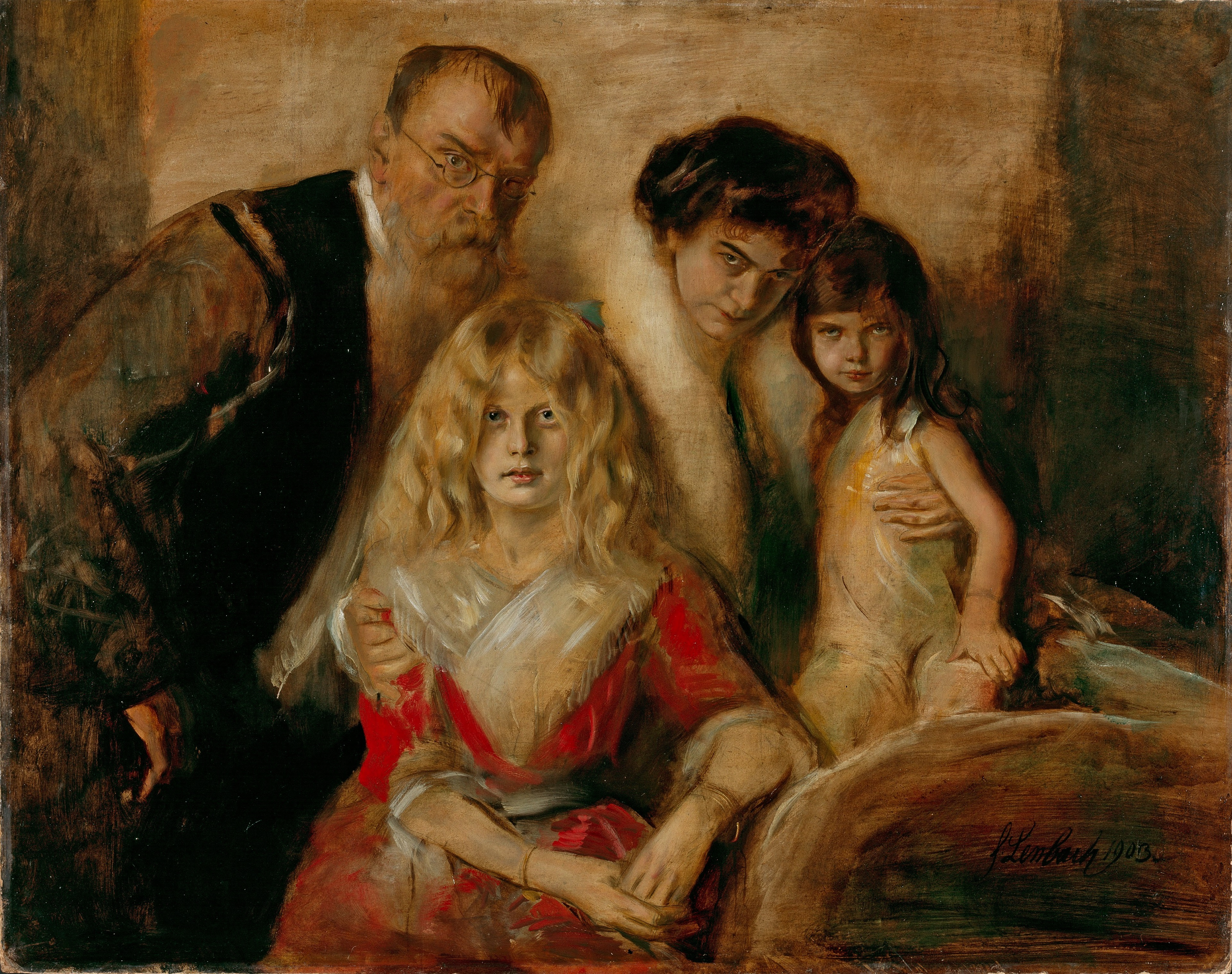 Portrait of himself, his wife Lolo and his daughters Marion and Gabriele.